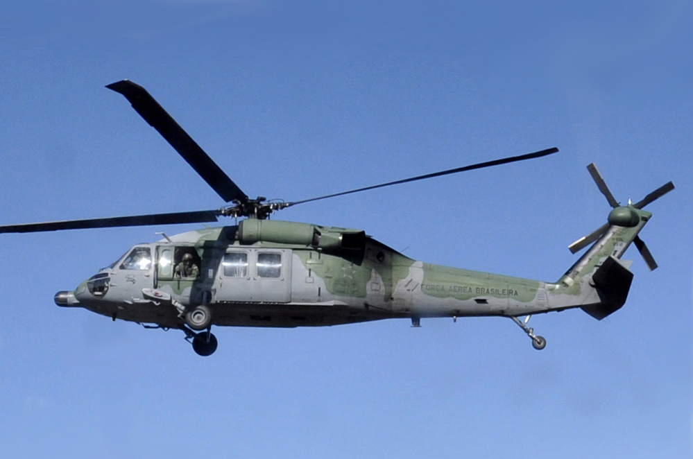 Força Aérea Brasileira UH-60